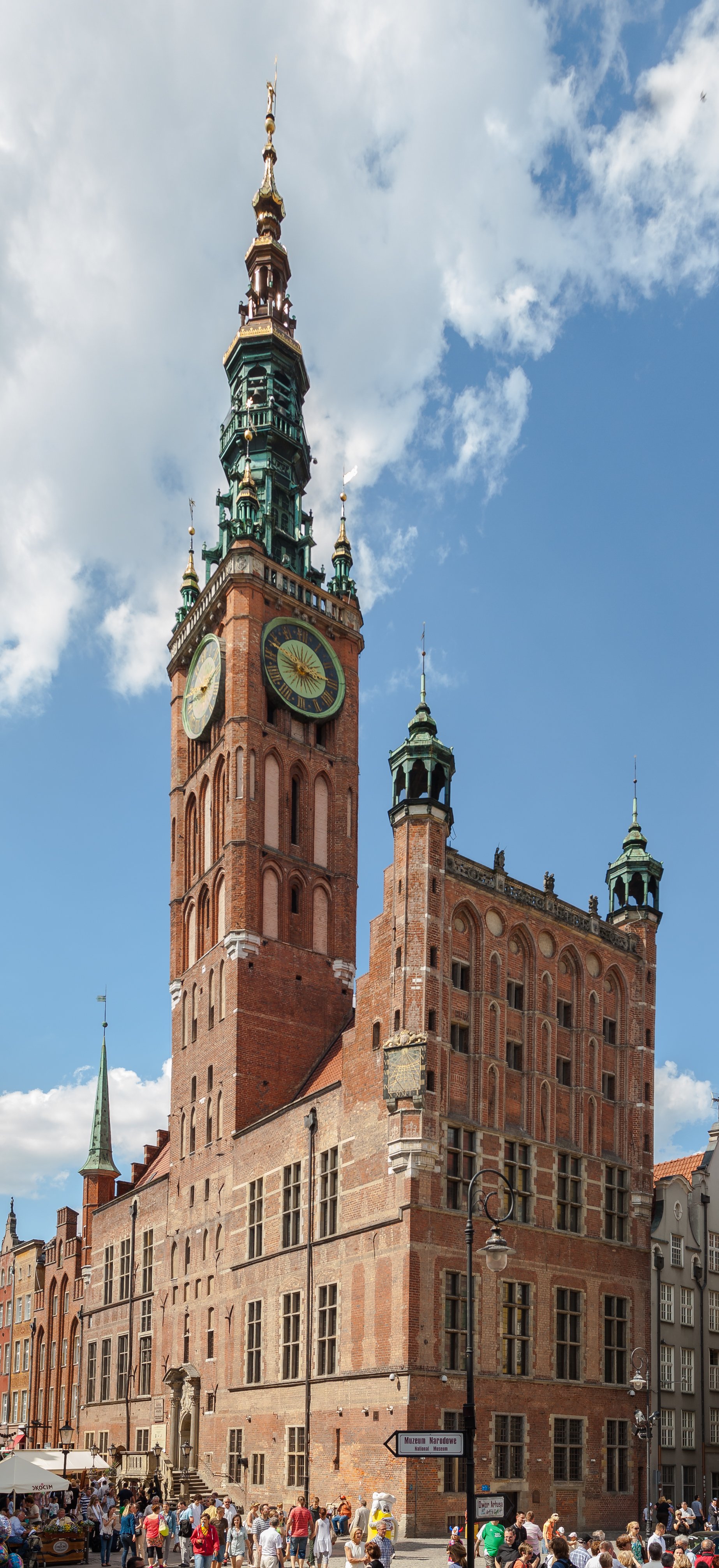 Main Town Hall, Gdansk, Poland